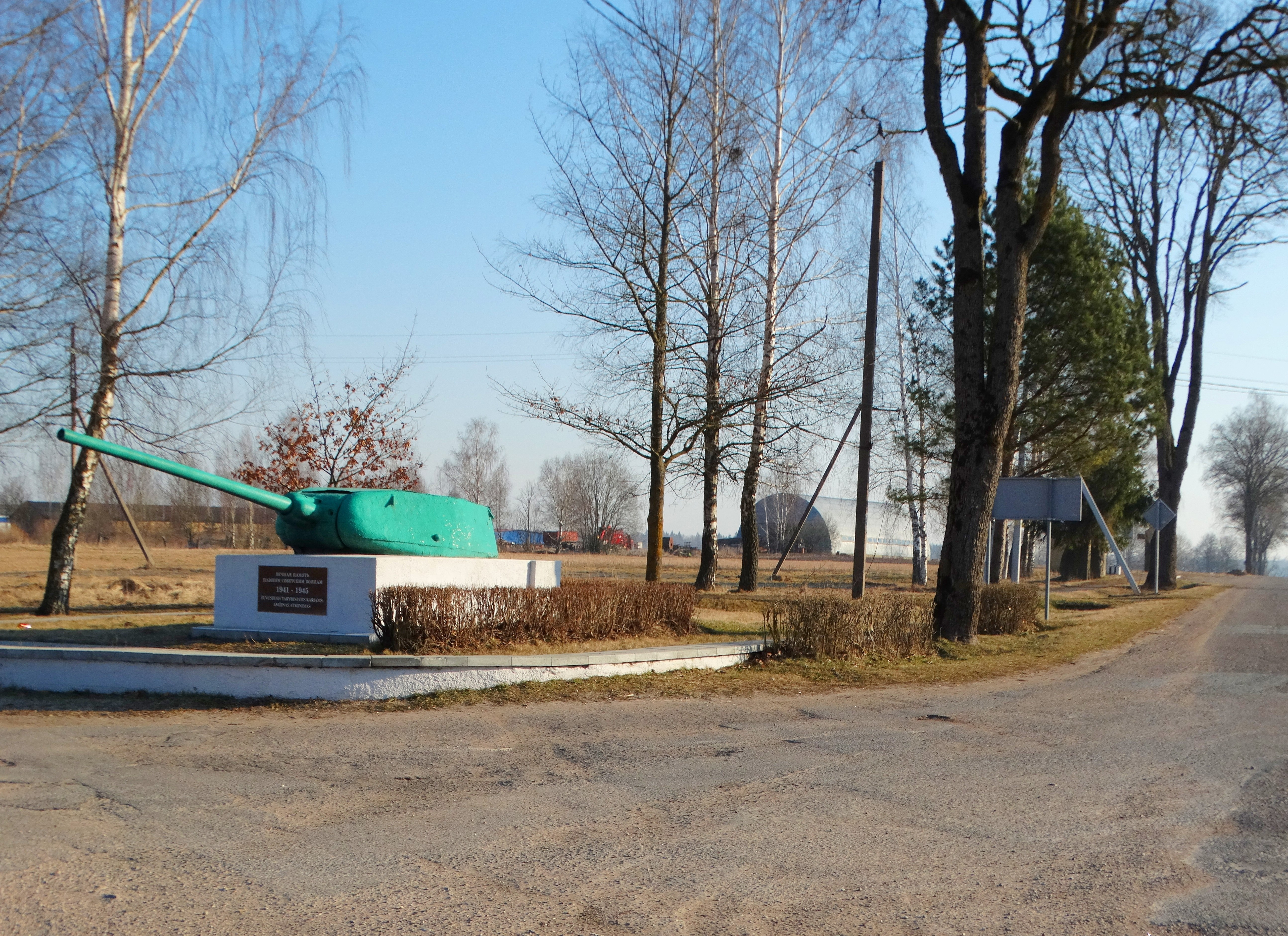 WWII monument, Dirvonėnai, Šiauliai district, Lithuania